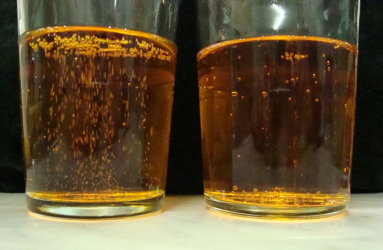 comparison of CO2 bubbles formed in a glass containing an etched widget in its base with a glass that does not.